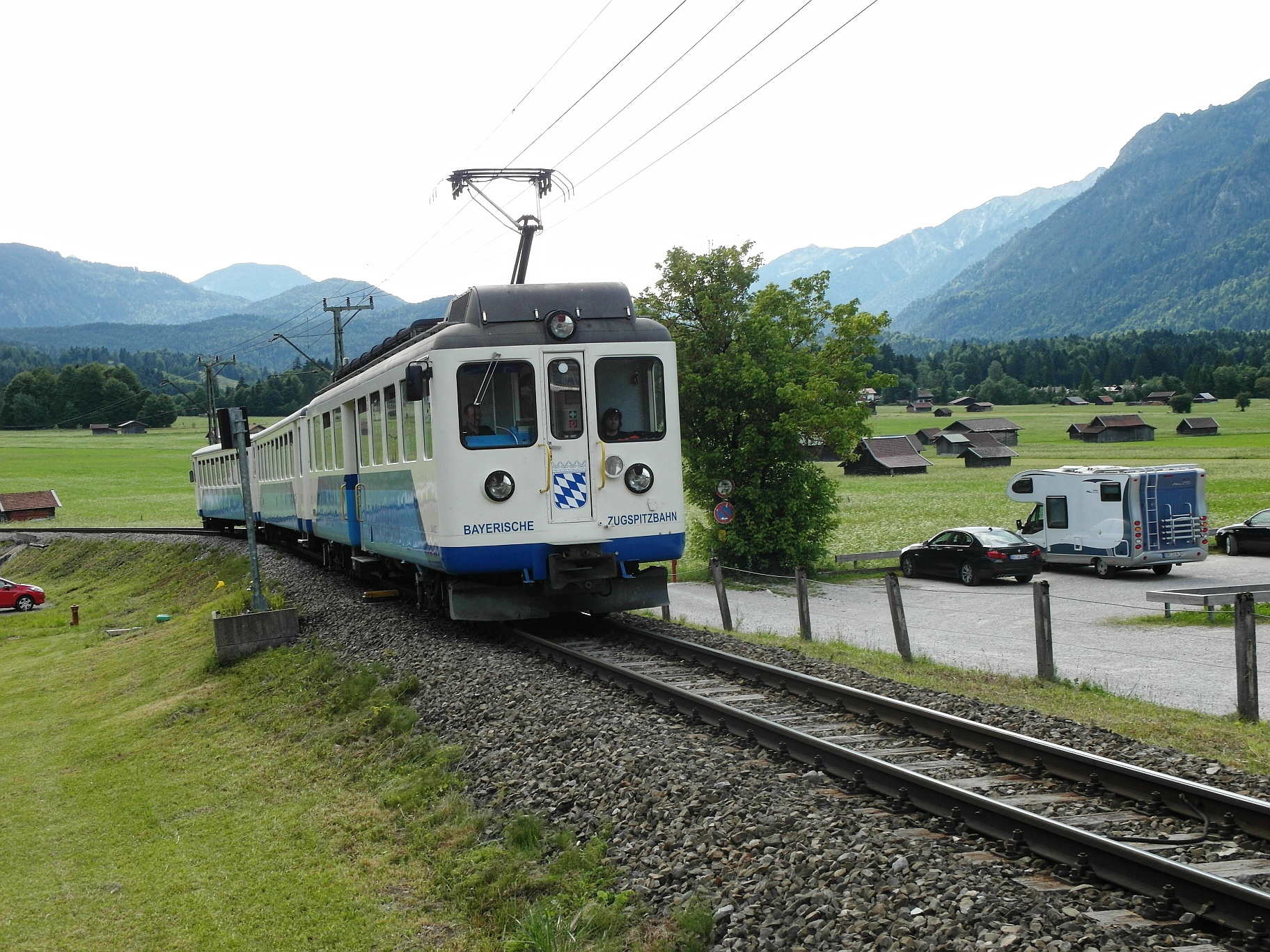 Train of the Bavarian Zugspitze Railway, coming from Grainau, approaching the stop at the Alpspitz/Kreuzeck cable car station. Leading Beh 4/4 309 ex-BOB, coupled with two driving trailers ex-RBS